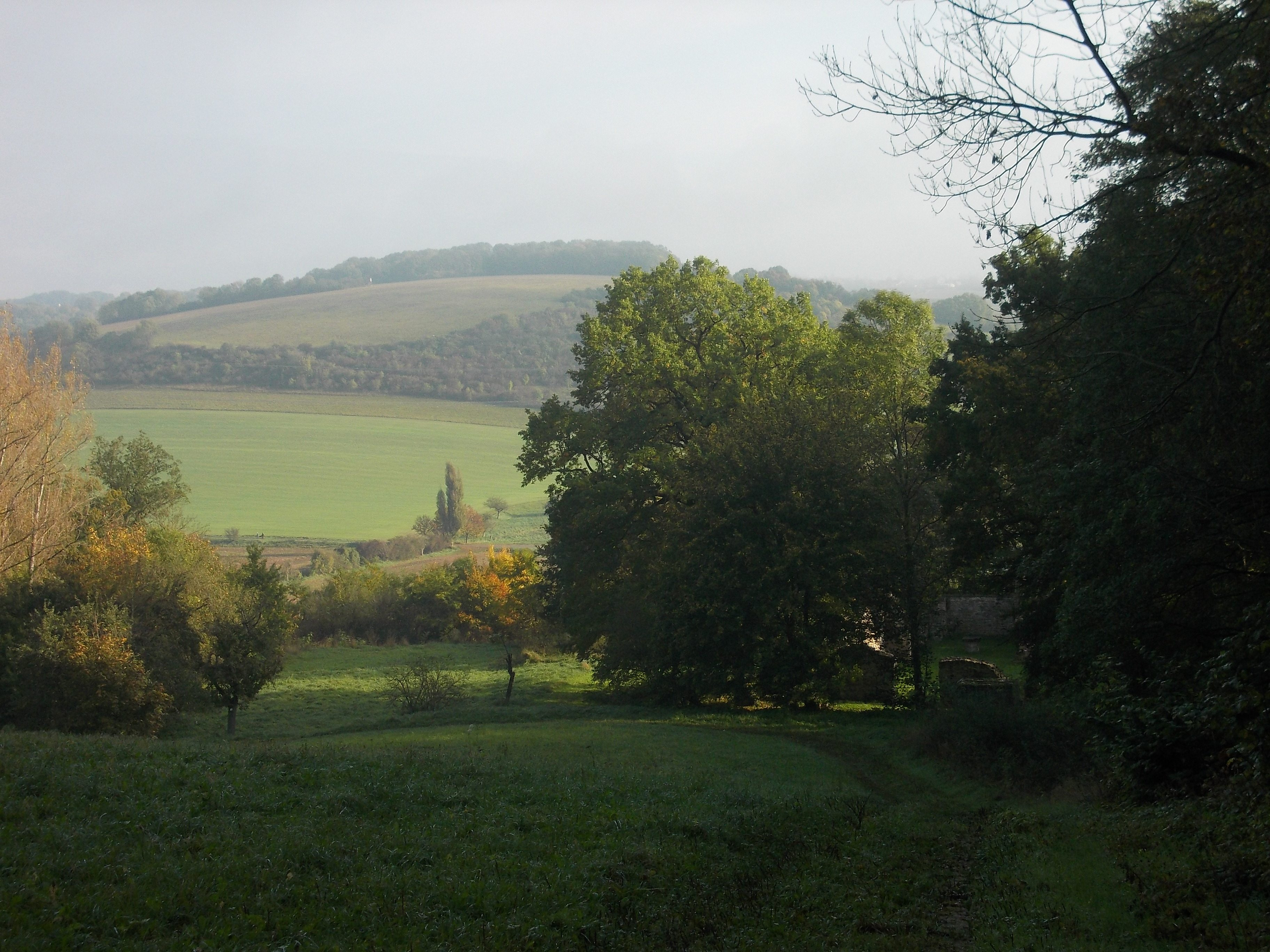 Landscape near Camburg with the ruins of St. Cyriacus' Church (Dornburg-Camburg, district: Saale-Holzlandkreis, Thuringia)